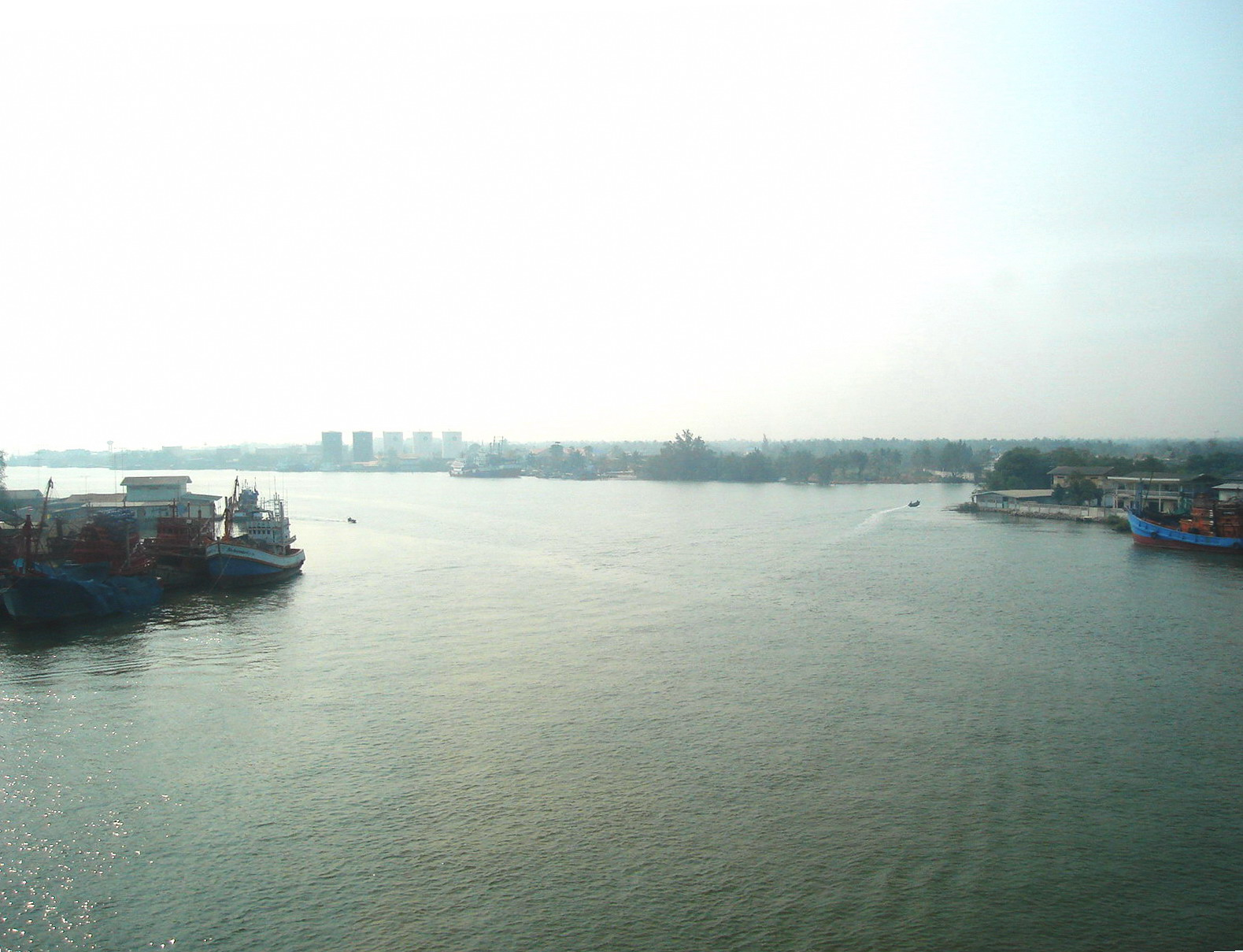 Mae Klong in Samut Songkhram, Thailand.